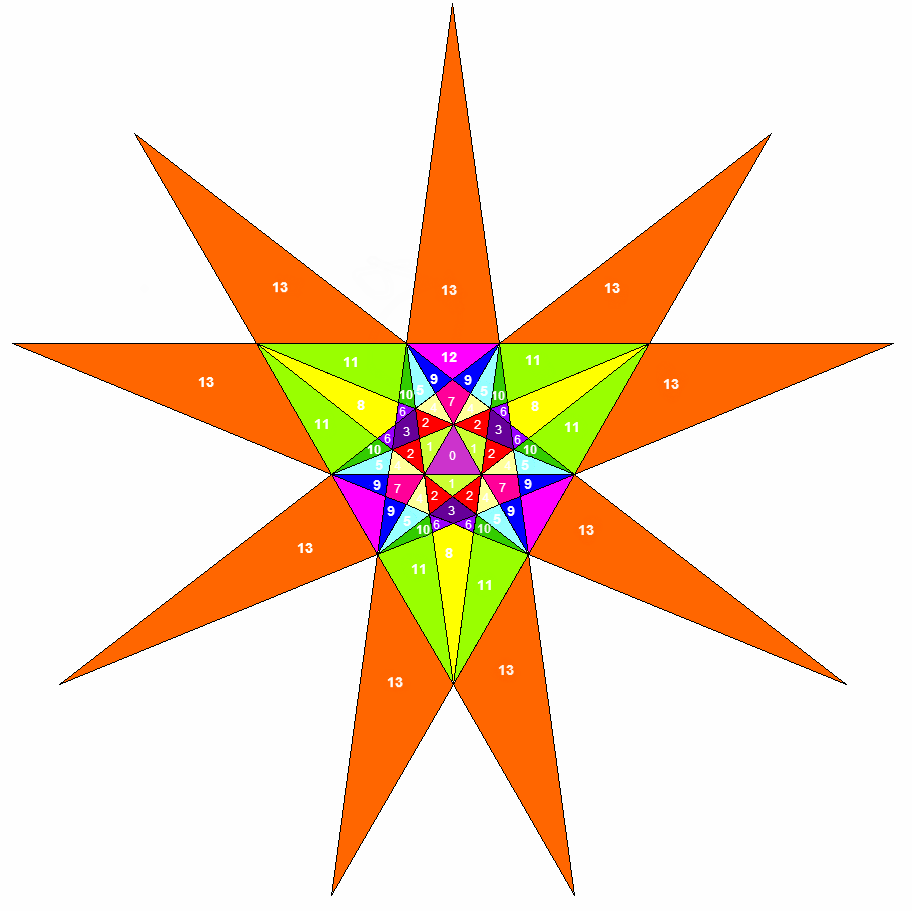 Diagram for enneagram of final stellation of the icosahedron. The idea was taken from paper Polyhedra written by Peter R. Cromwel URL: page 268